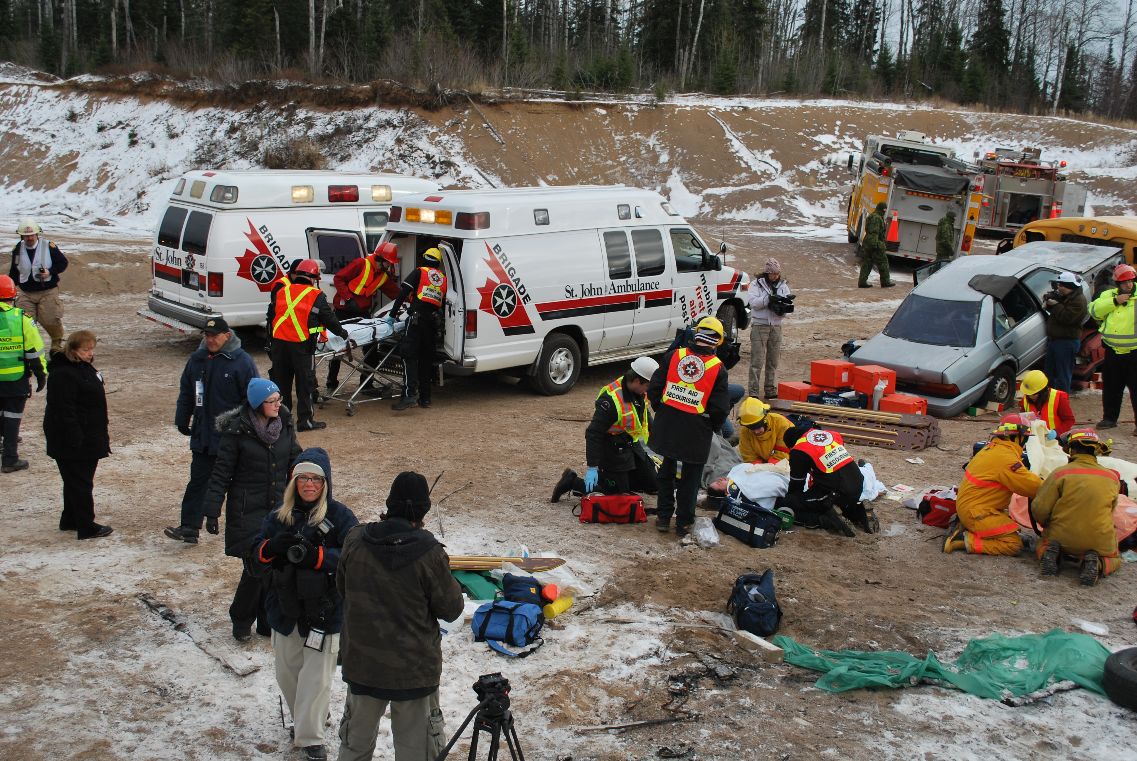 First Responders from St. John Ambulance and local Fire Departments assist Paramedics during an exercise near Thunder Bay, Ontario, Canada in November, 2008